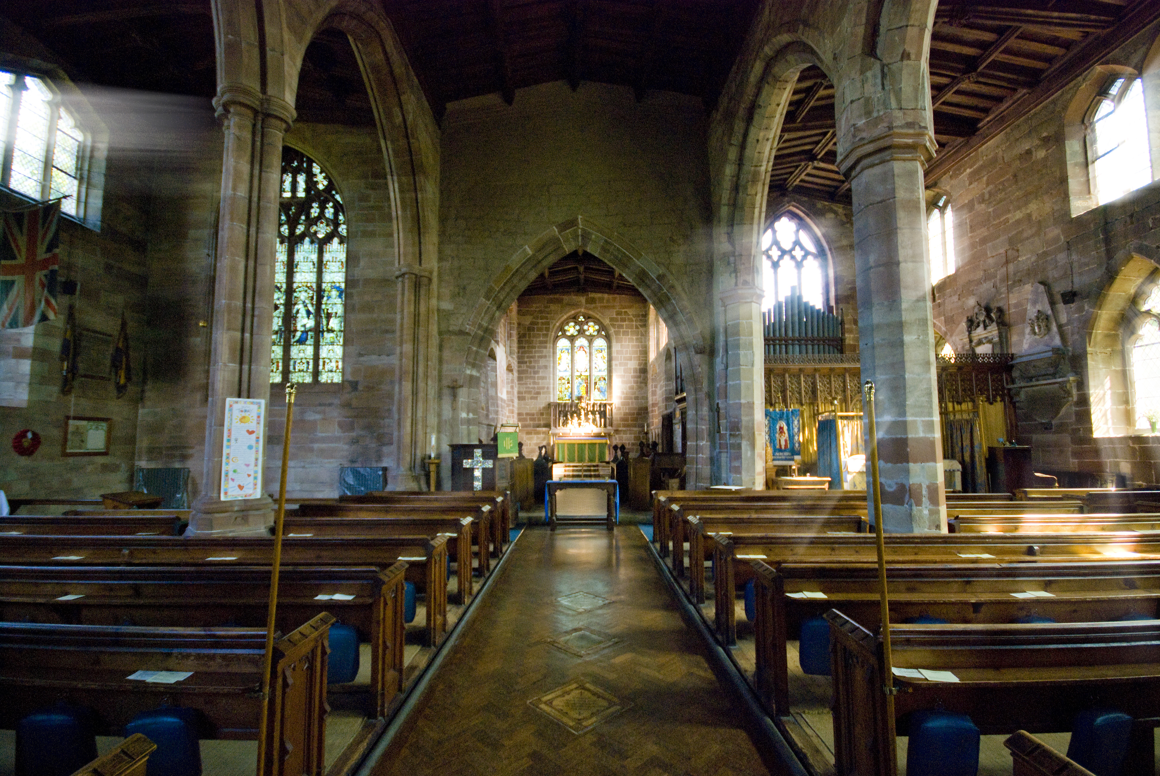 Inside the nave of All Saints' parish church, Alrewas, Staffordshire, looking east to the chancel. The chancel arch (ahead) may be 13th-century. The south arcade (right) is 13th-century and its height was increased in the 16th century. The north arcade (left) is Gothic revival, built in 1891.